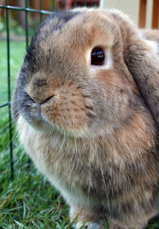 Mini lop